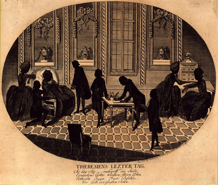 Maria Theresias letzter Tag